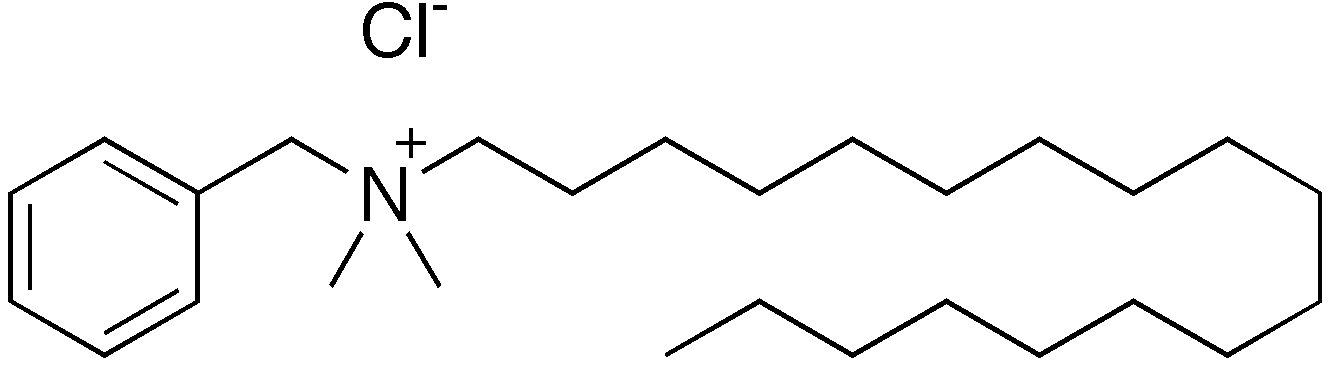 chemical structure of stearalkonium chloride (benzyldimethyloctadecylammonium chloride)